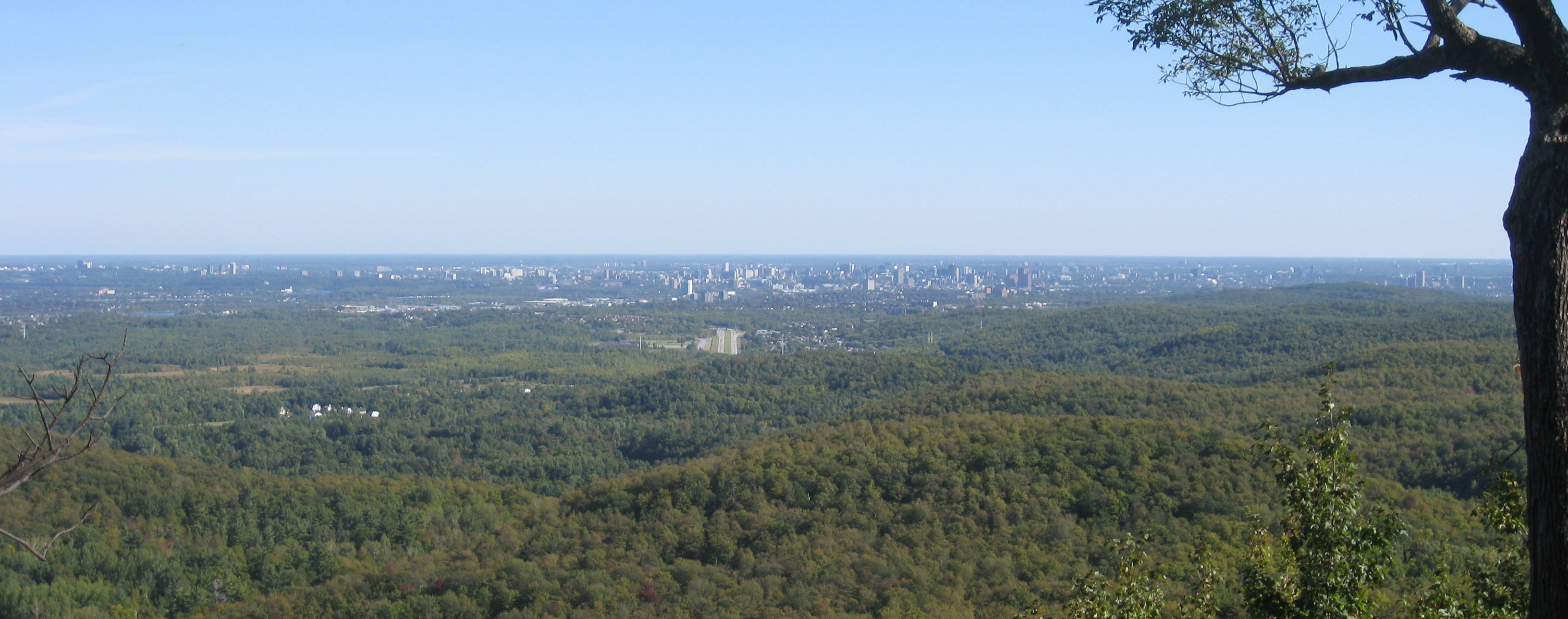 East Ottawa from Skyline Trail (Camp Fortune). Route 5 in midfield, Vanier in the distance, downtown is offscreen to the right.